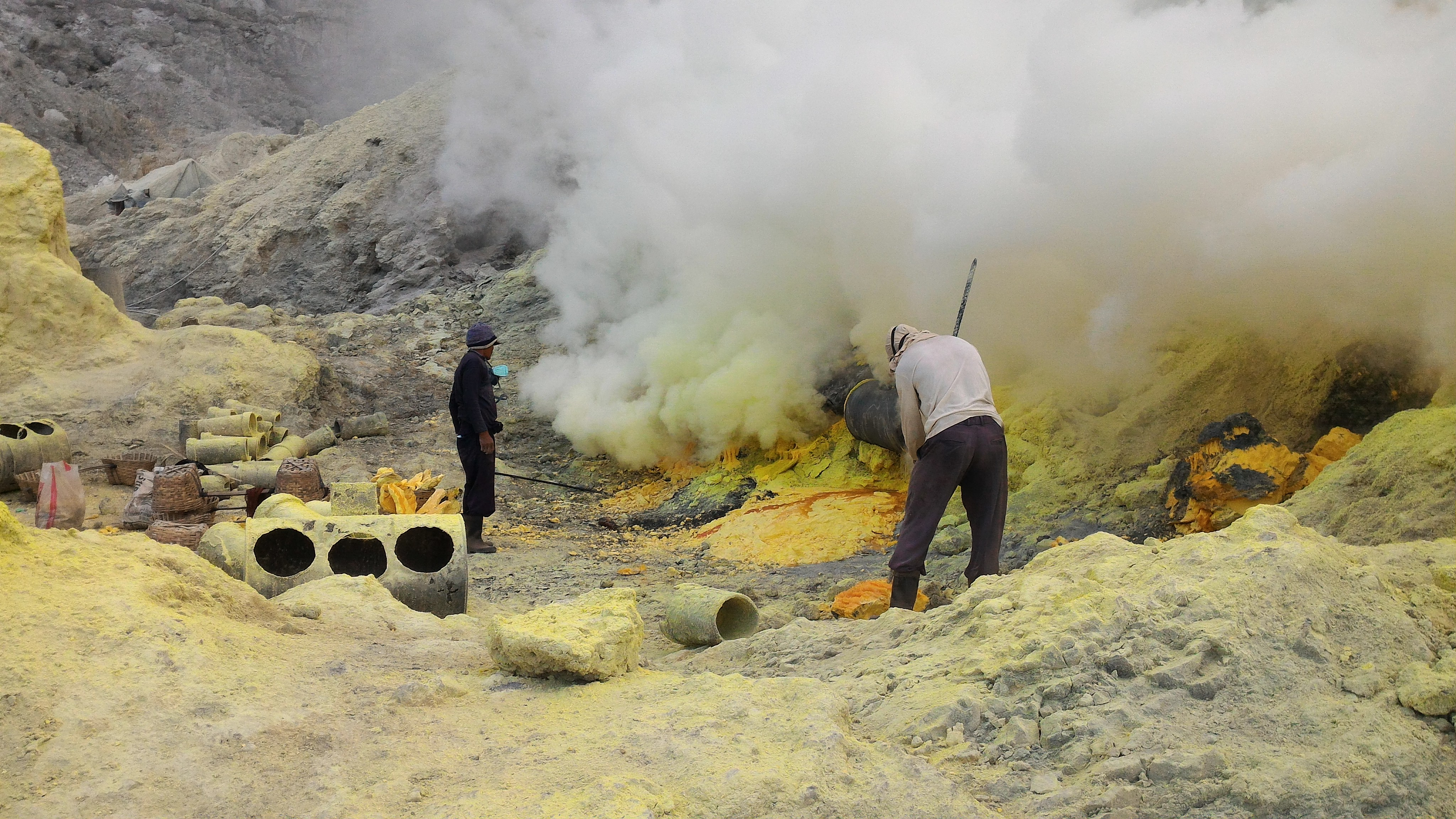 Mining sulphur at Kawah Ijen